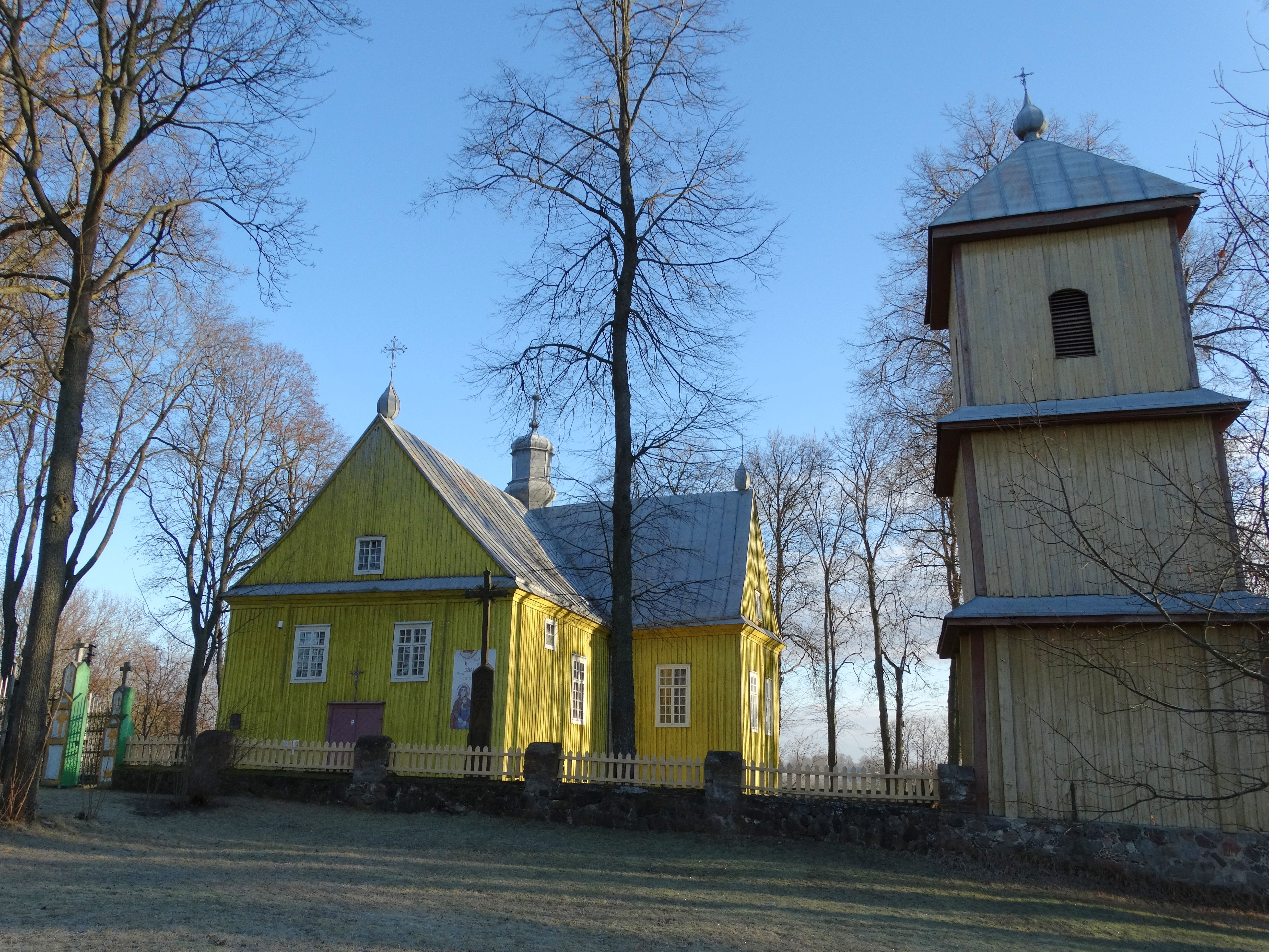 Catholic church, Surviliškis, Kėdainiai district, Lithuania